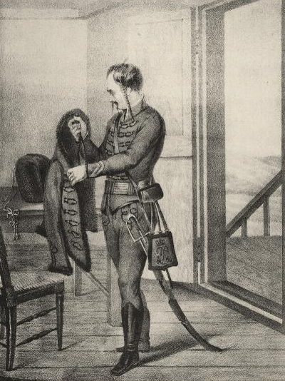 "Wachtmeister" of a Serbian Hussar-regiment, in the years 1741 to 1761.